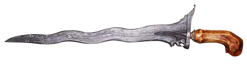 Cropped image of a Kris dagger from Yogyakarta (Java)- Dapur Carubuk